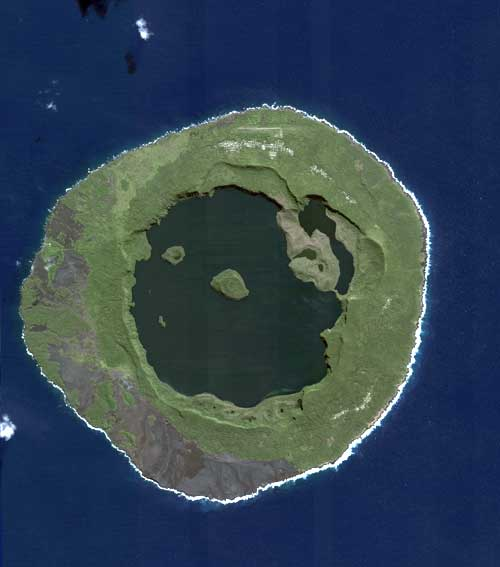 Niuafoʻou Island, Tonga, from space (north is up). Image processed.